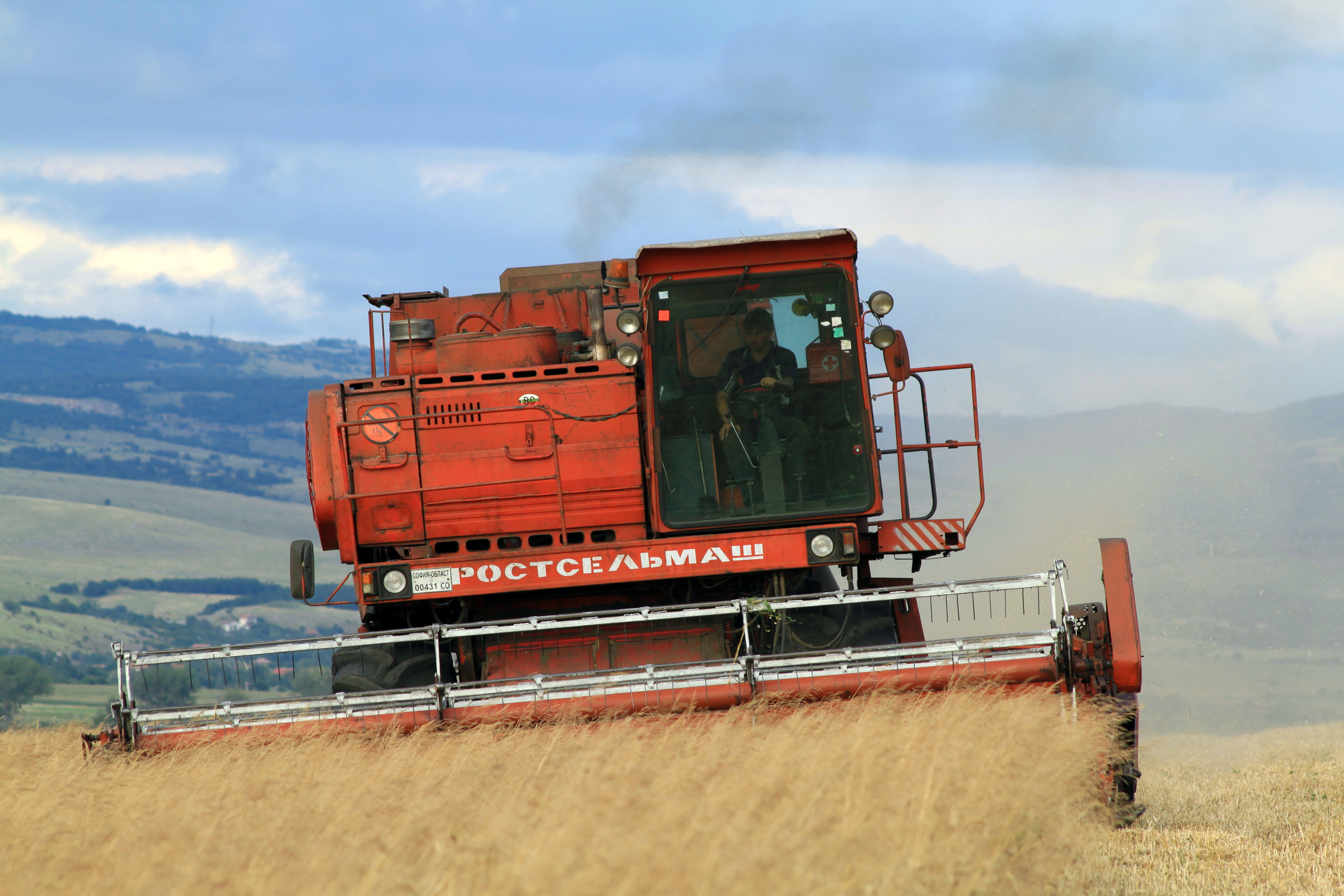 Rostselmash Don combine harvester, Slivnitsa, Bulgaria